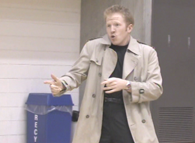 Image 1 from rickrolling at a basketball game.